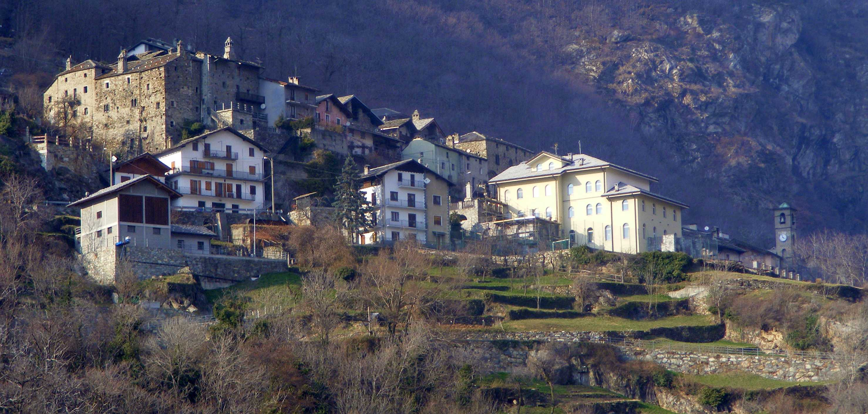 Perloz (AO, Italy): panorama from the opposite side of Lys Valley